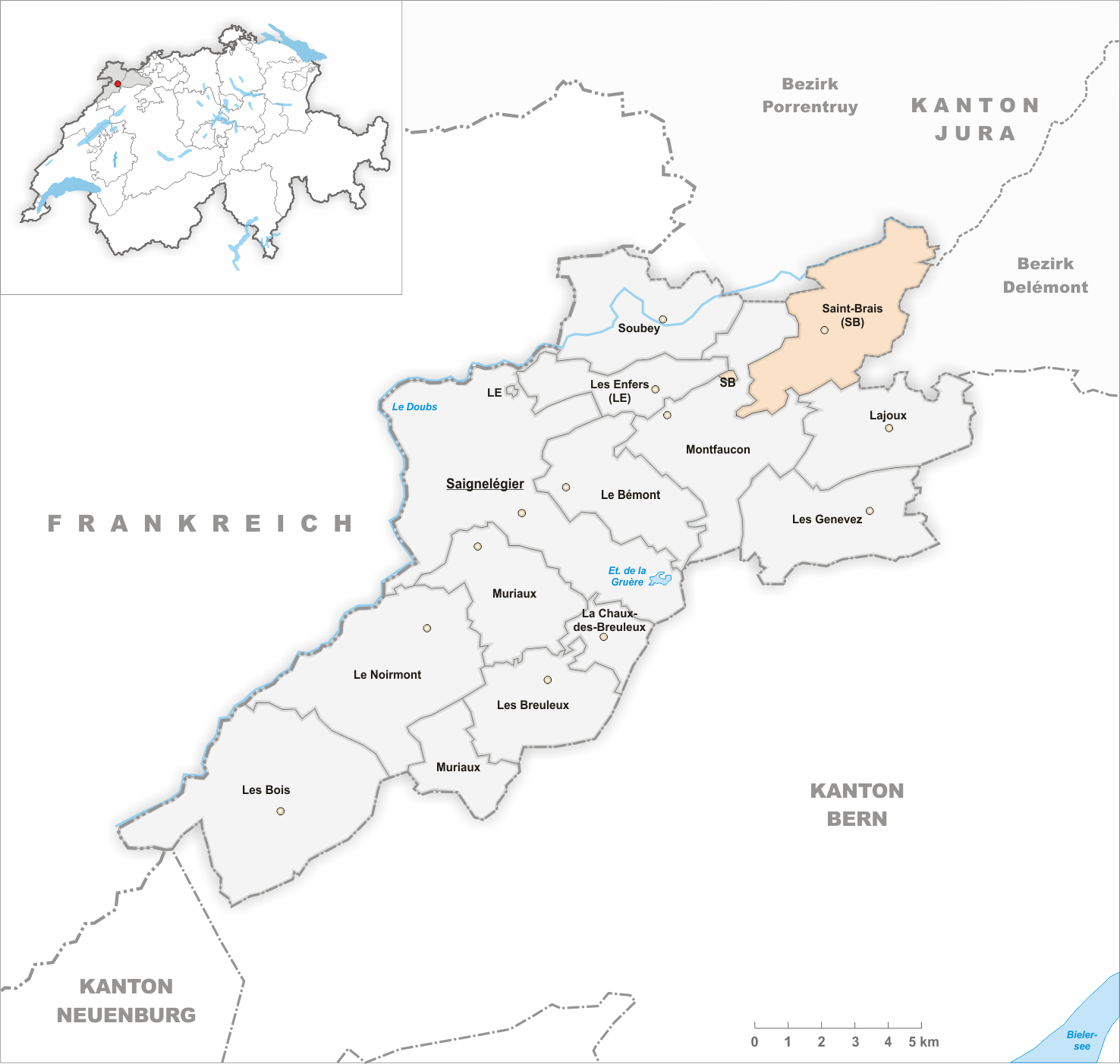 Municipality Saint-Brais